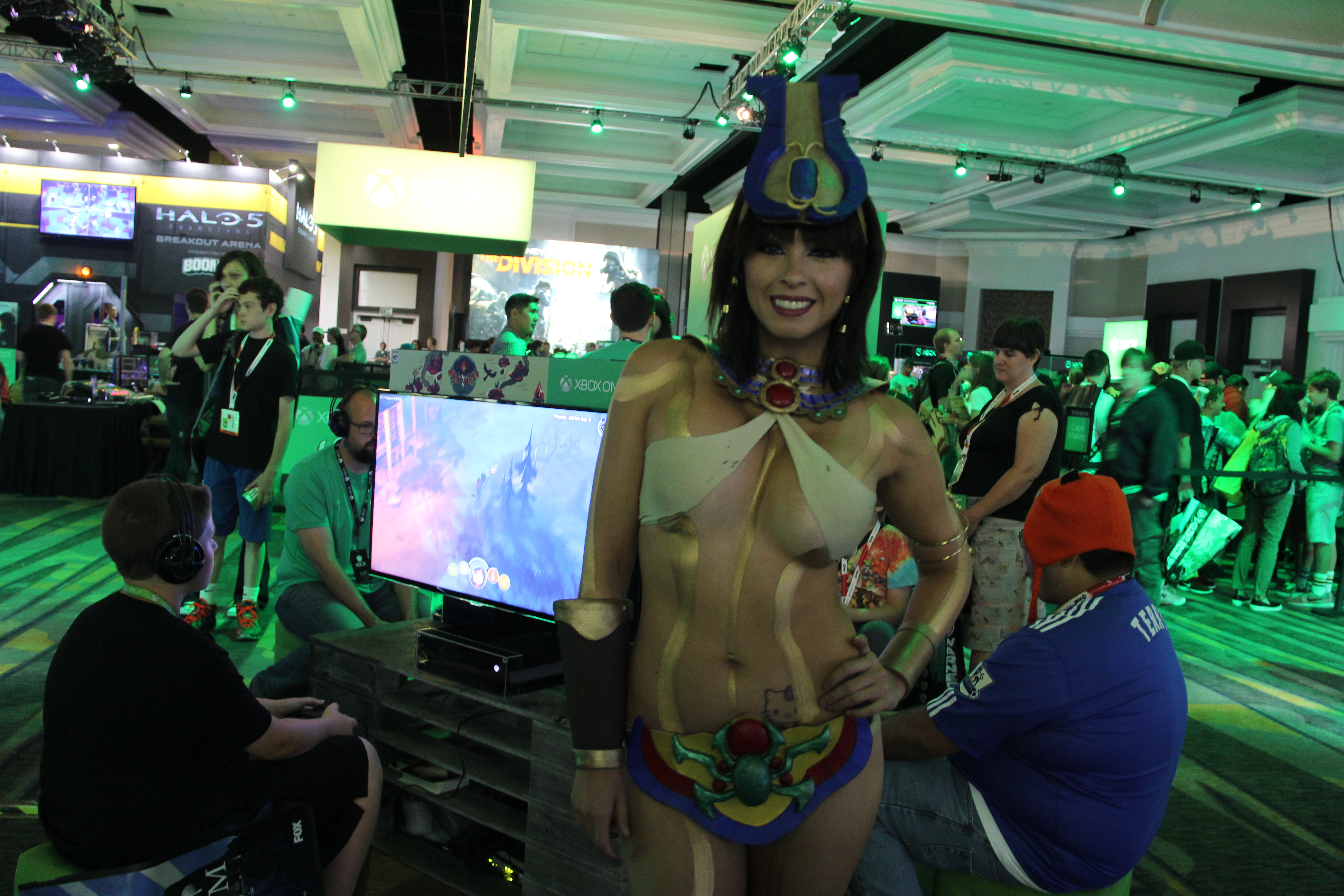 A model cosplaying as the Egyptian Goddess Neith from the game 'Smite' at the XBox Lounge. San Diego Comic Con 2015